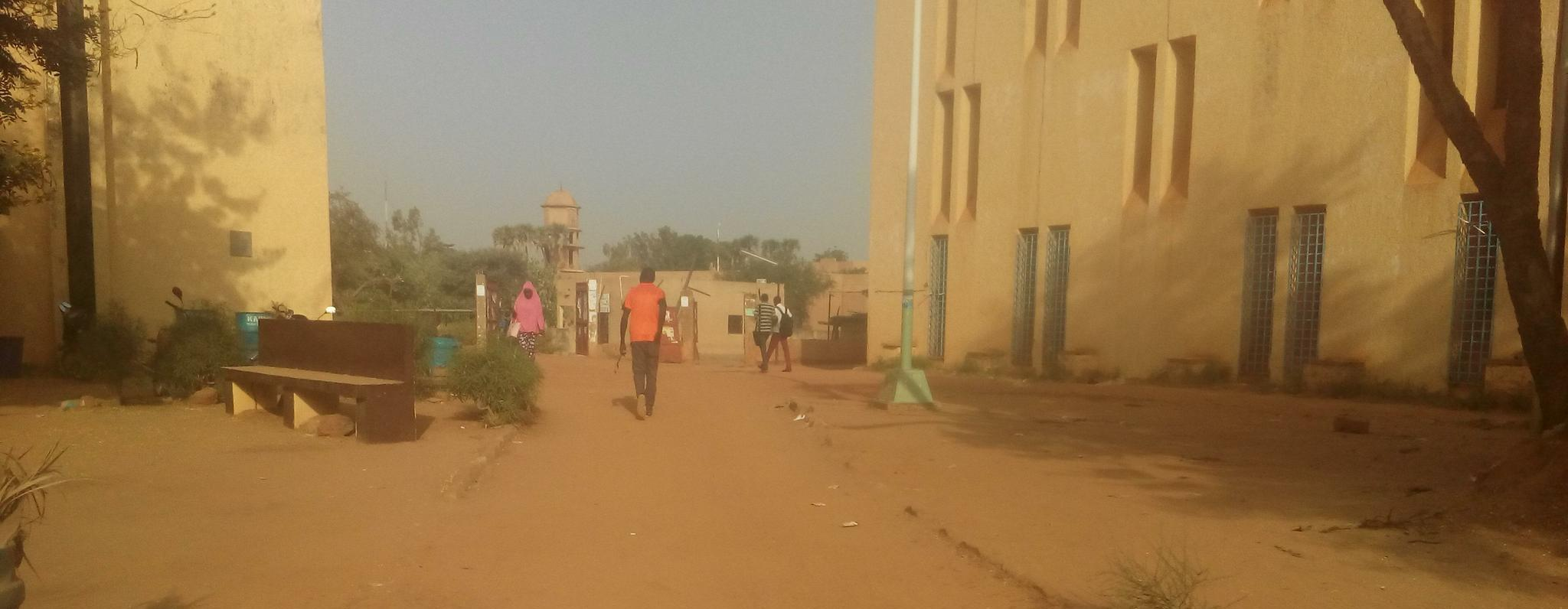 UAM Niamey campus